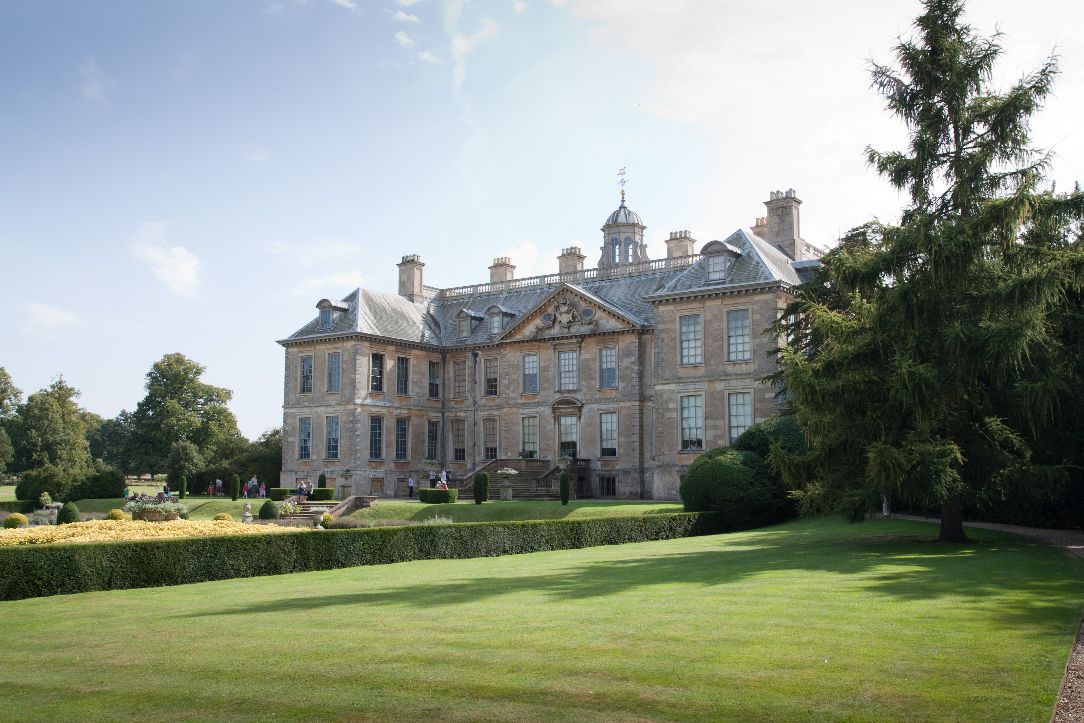 Belton House